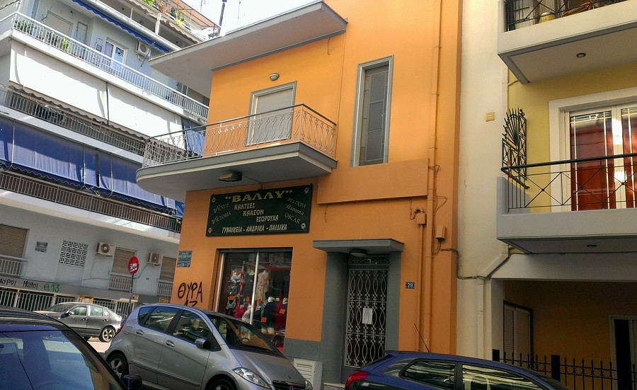 petralona